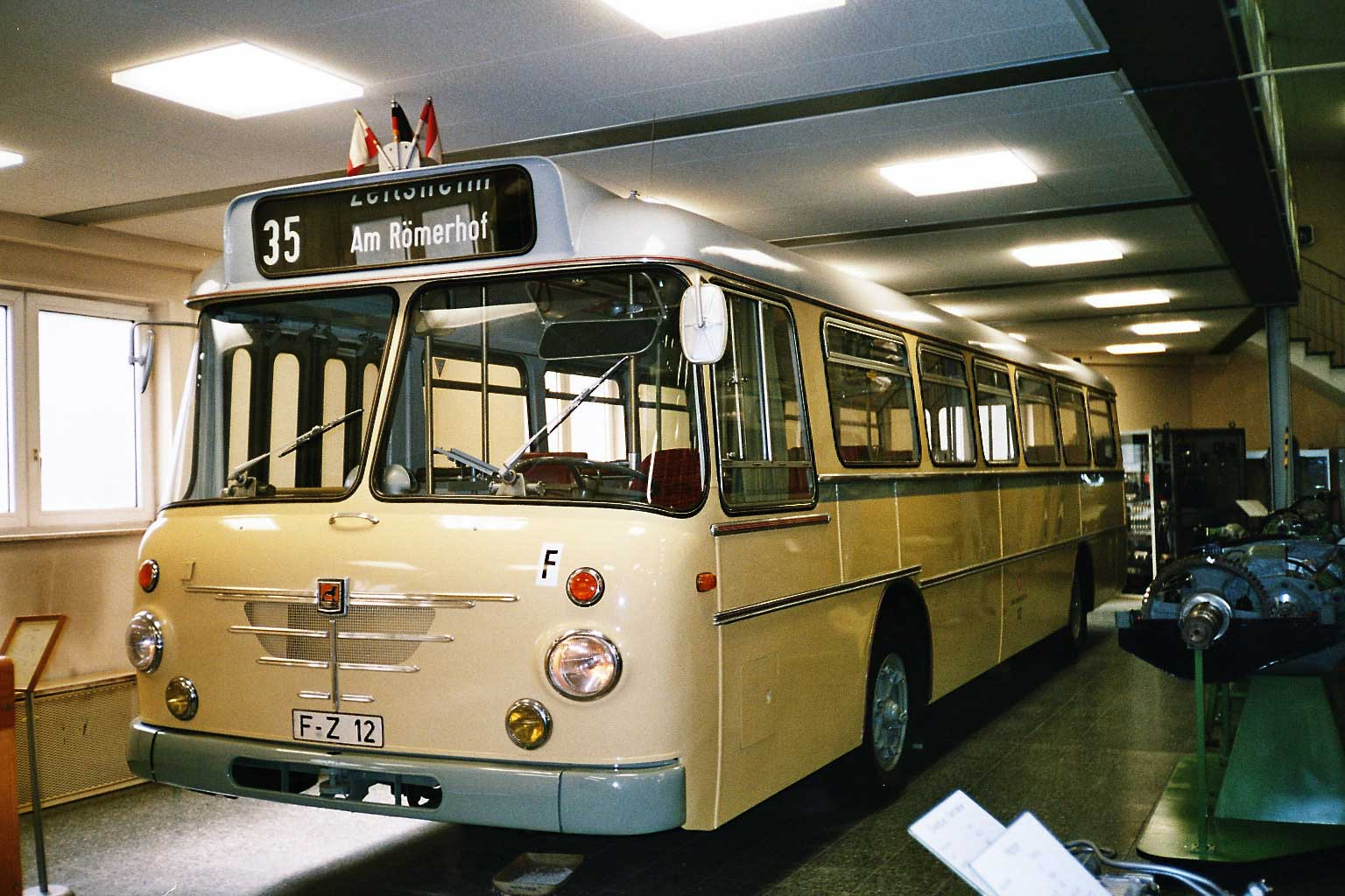 1964 Büssing Senator at transportation museum Frankfurt